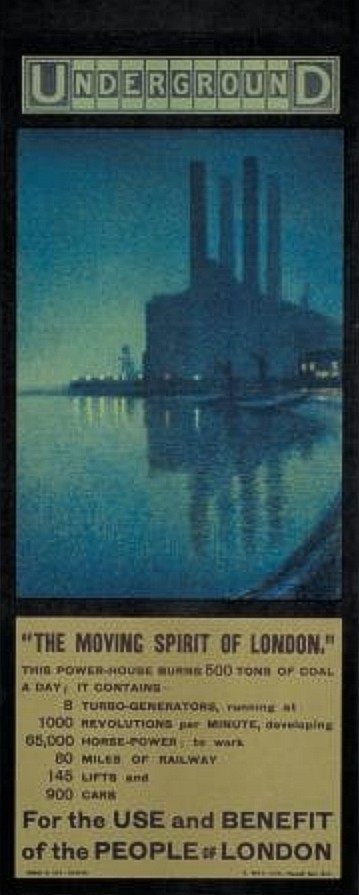 "Underground; the moving spirit of London", Published by Underground Electric Railway Company Ltd, 1910, Printed by T R Way and Company Ltd, 1910